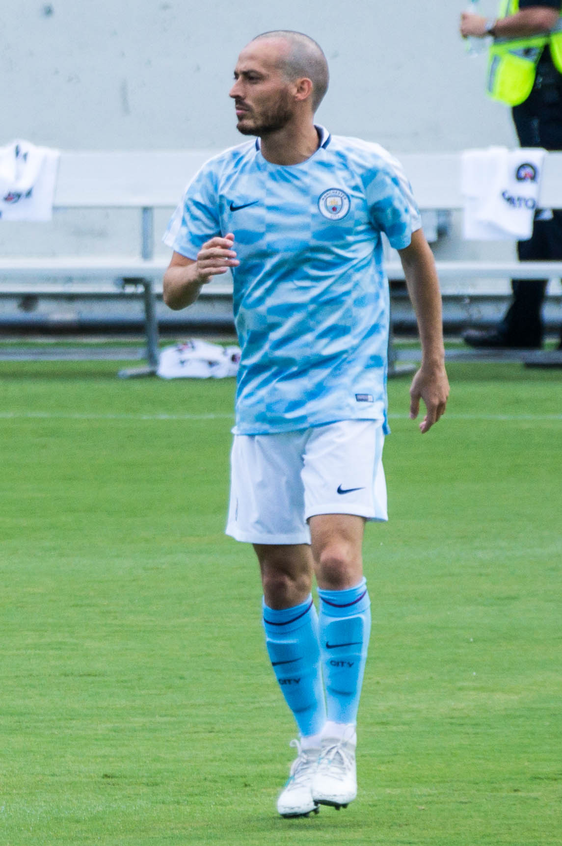 Manchester City vs Tottenham Hotspur at Nissan Stadium in Nashville, TN